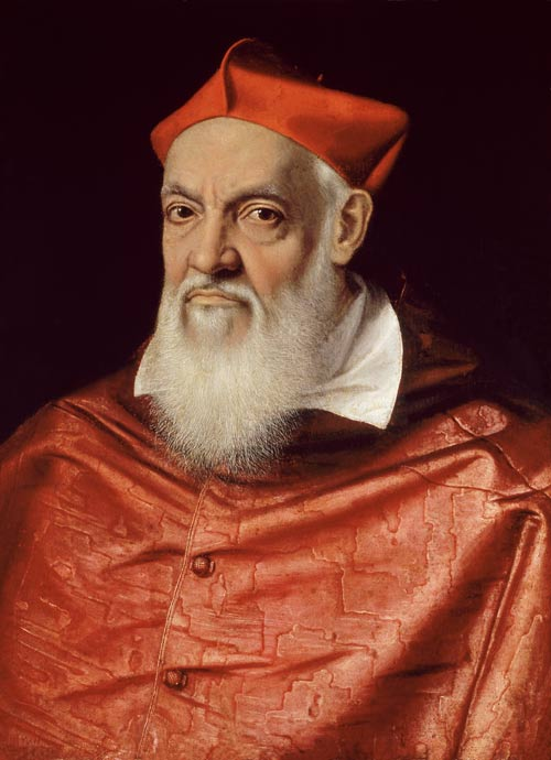 Portrait of Cardenal Ricci